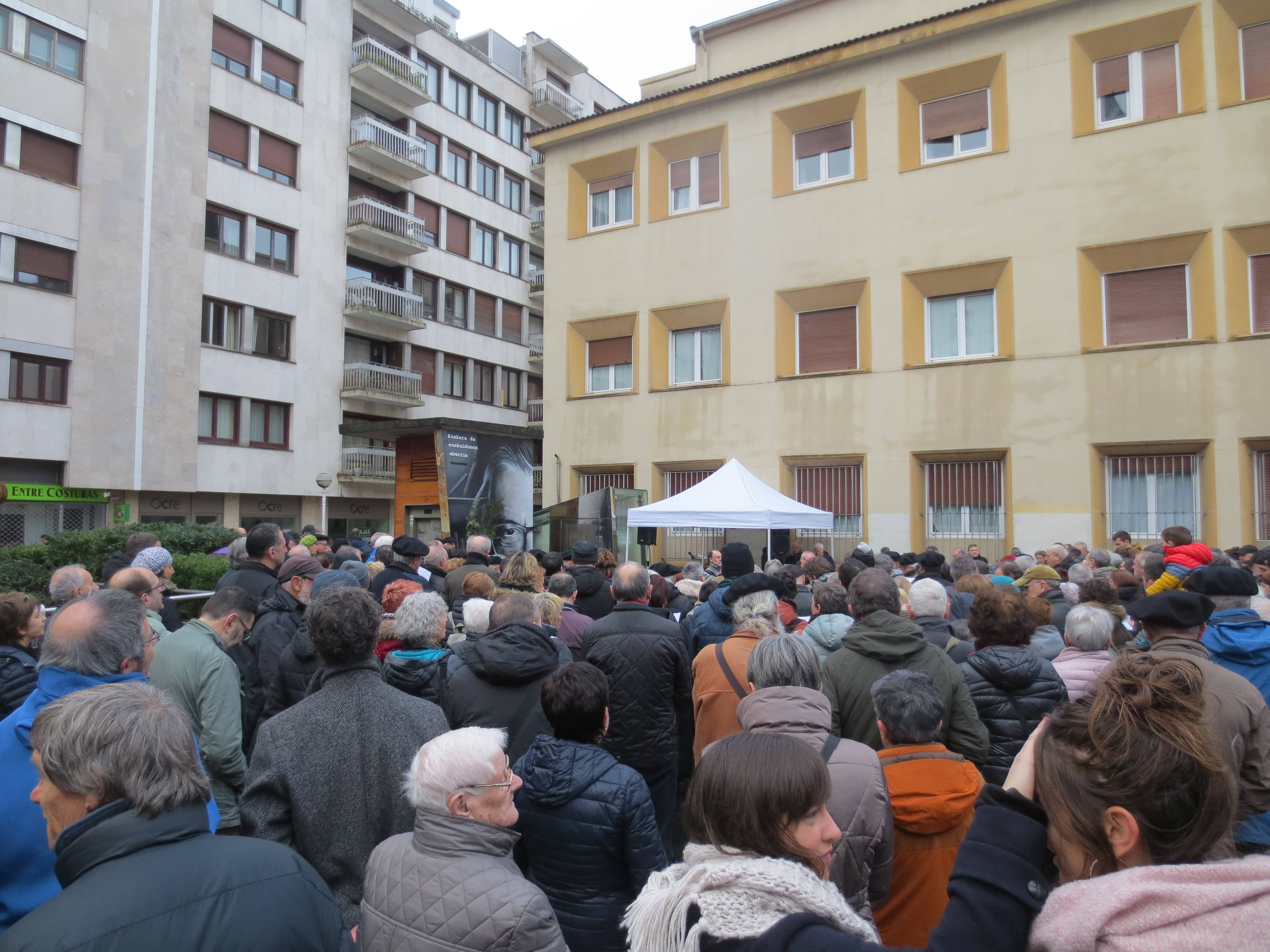 Tribute to Txillardegi in Antiguo, Donostia, 2018